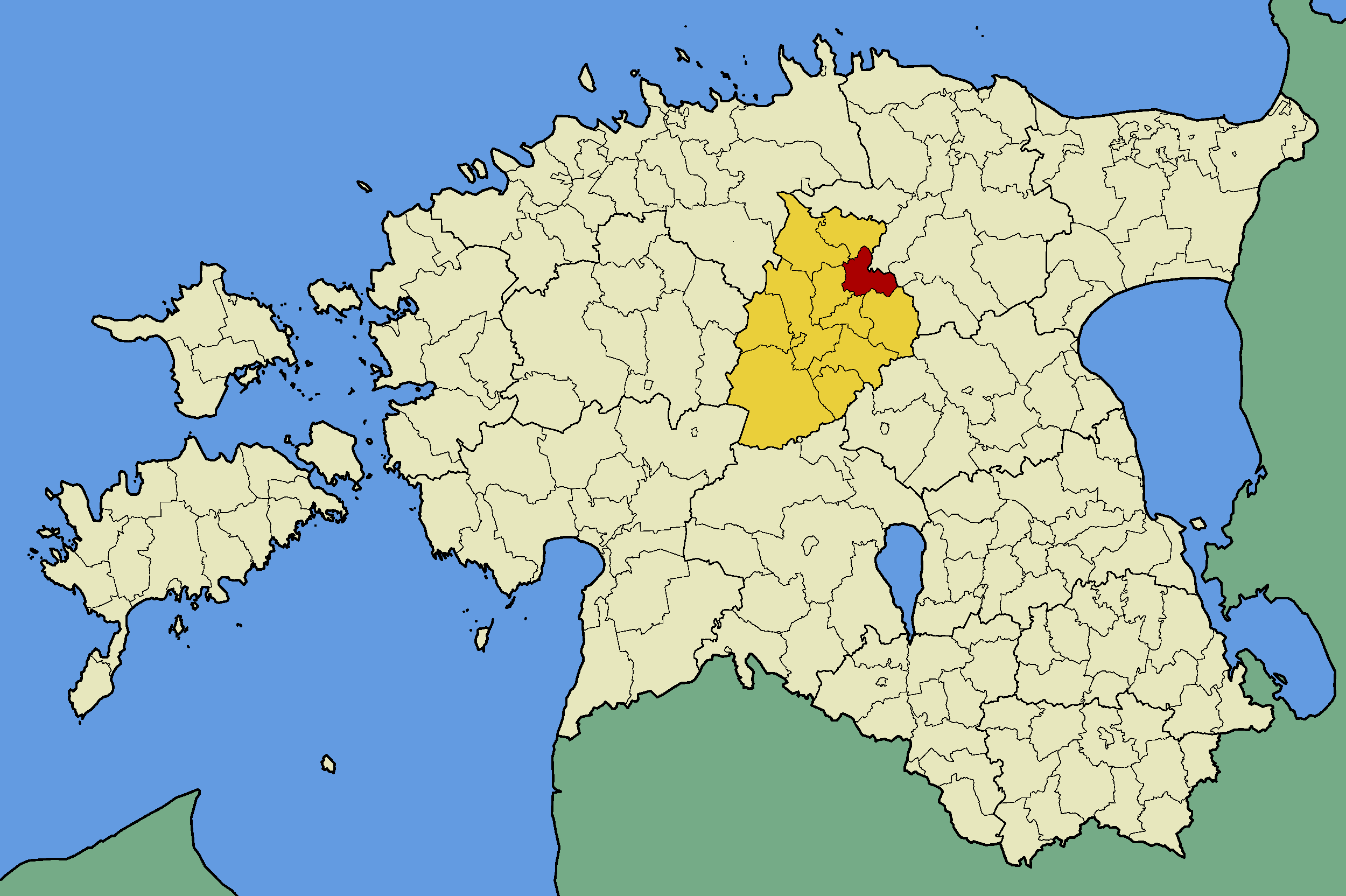 Map of Estonia with borders of municipalities (parishes). Järva county and Järva-Jaani municipality emphasized.